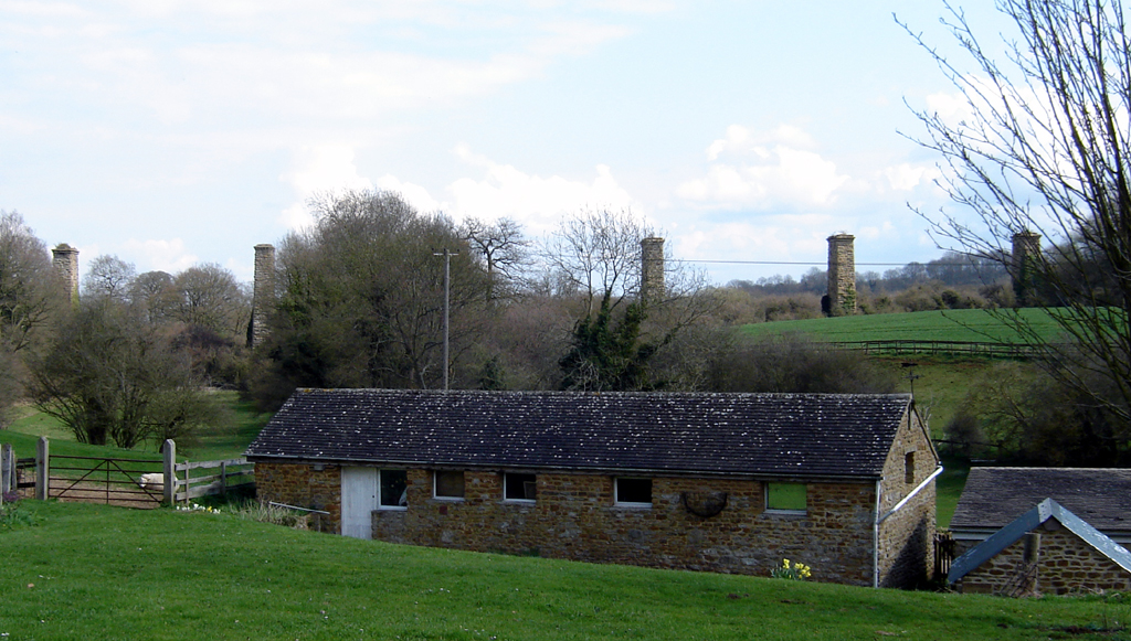 Railway viaduct piers, Hook Norton, Oxfordshire. 16 April 2006. Photographer: Fin Fahey